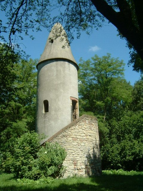 Berger Warte, an old tower on the highest point of Frankfurt/Main, Germany.